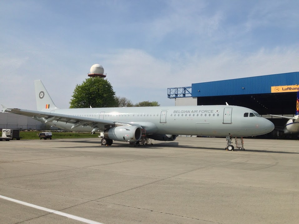 Airbus A321 leased by the Belgian Air Force from HiFly